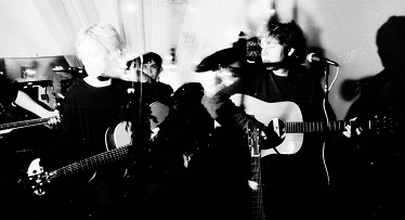 A picture of the band Monovox playing live taken by me.